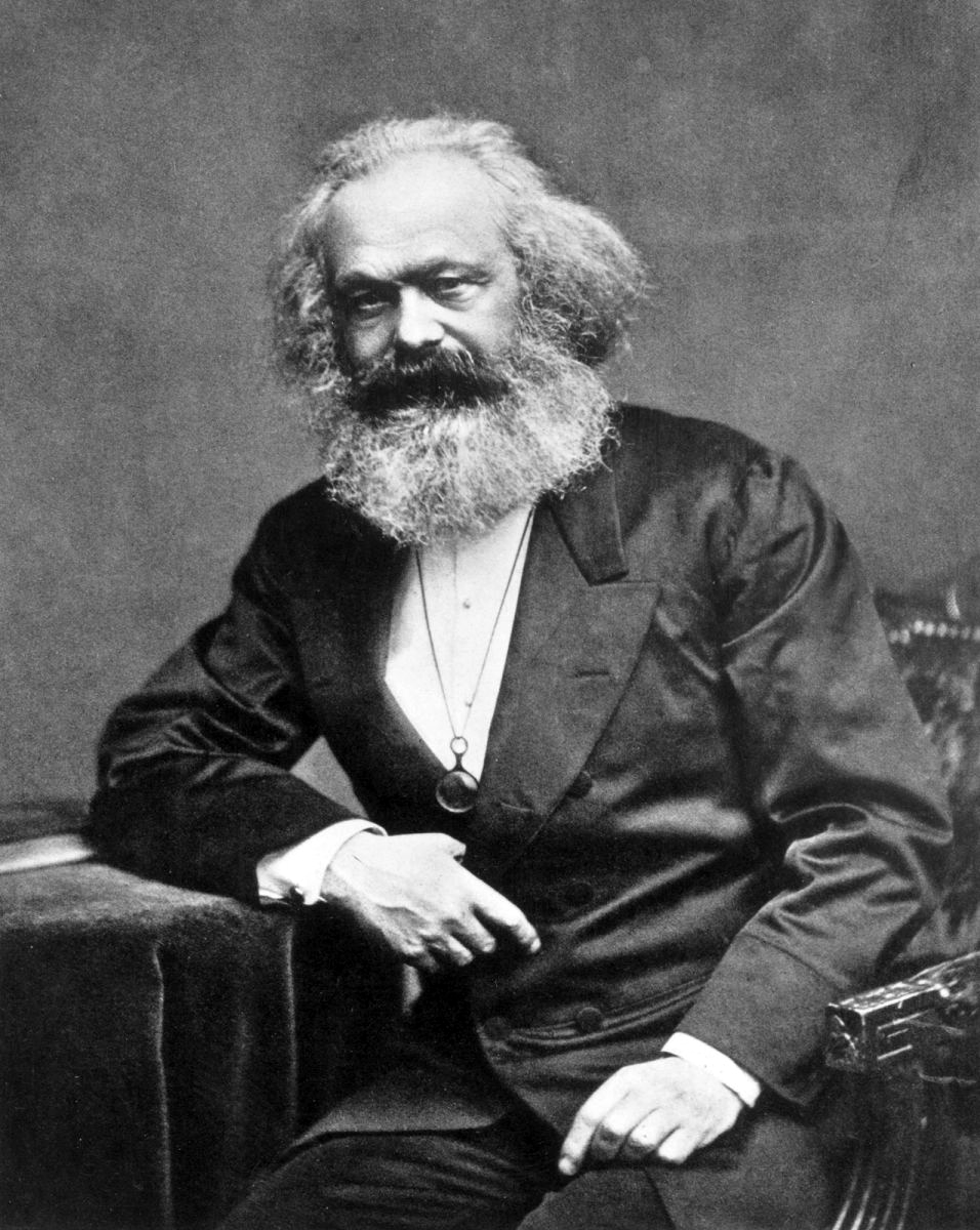 Photographic portrait of Karl Marx seated with a thumb in his lapel and his hand on his thigh.